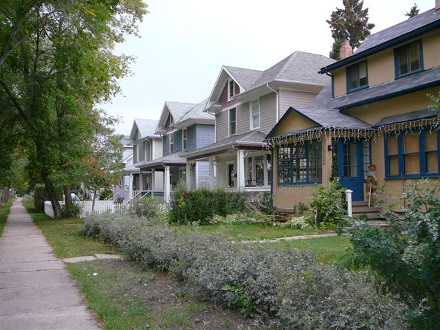 I took this myself on September 5, 2007